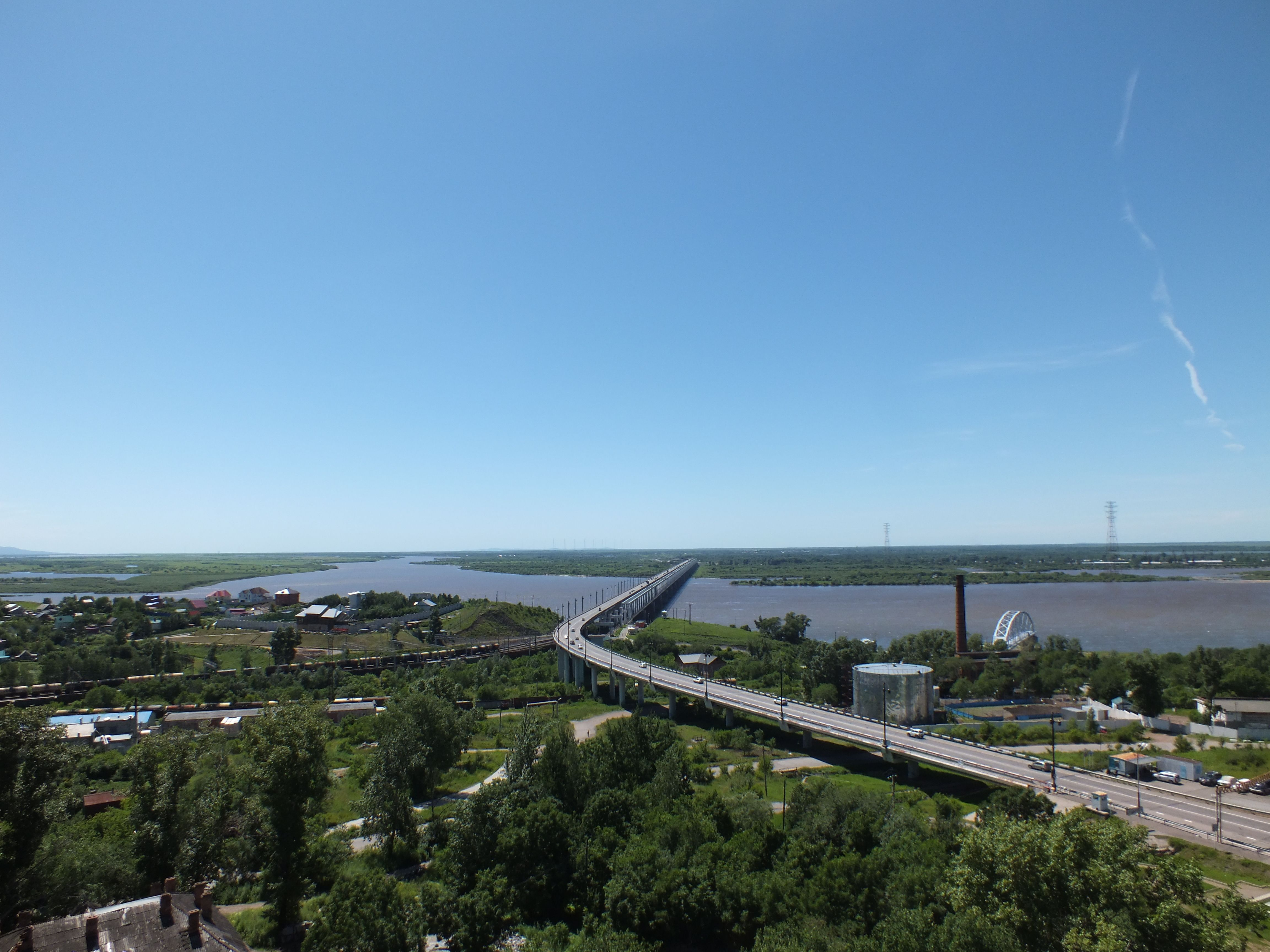 Khabarovsk Bridge